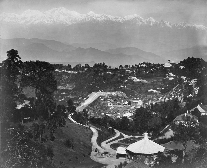 A general view, overlooking the Darjeeling town, looking north towards Sikkim and the Himalayas, with the peak of Kanchenjunga visible in the far distance.